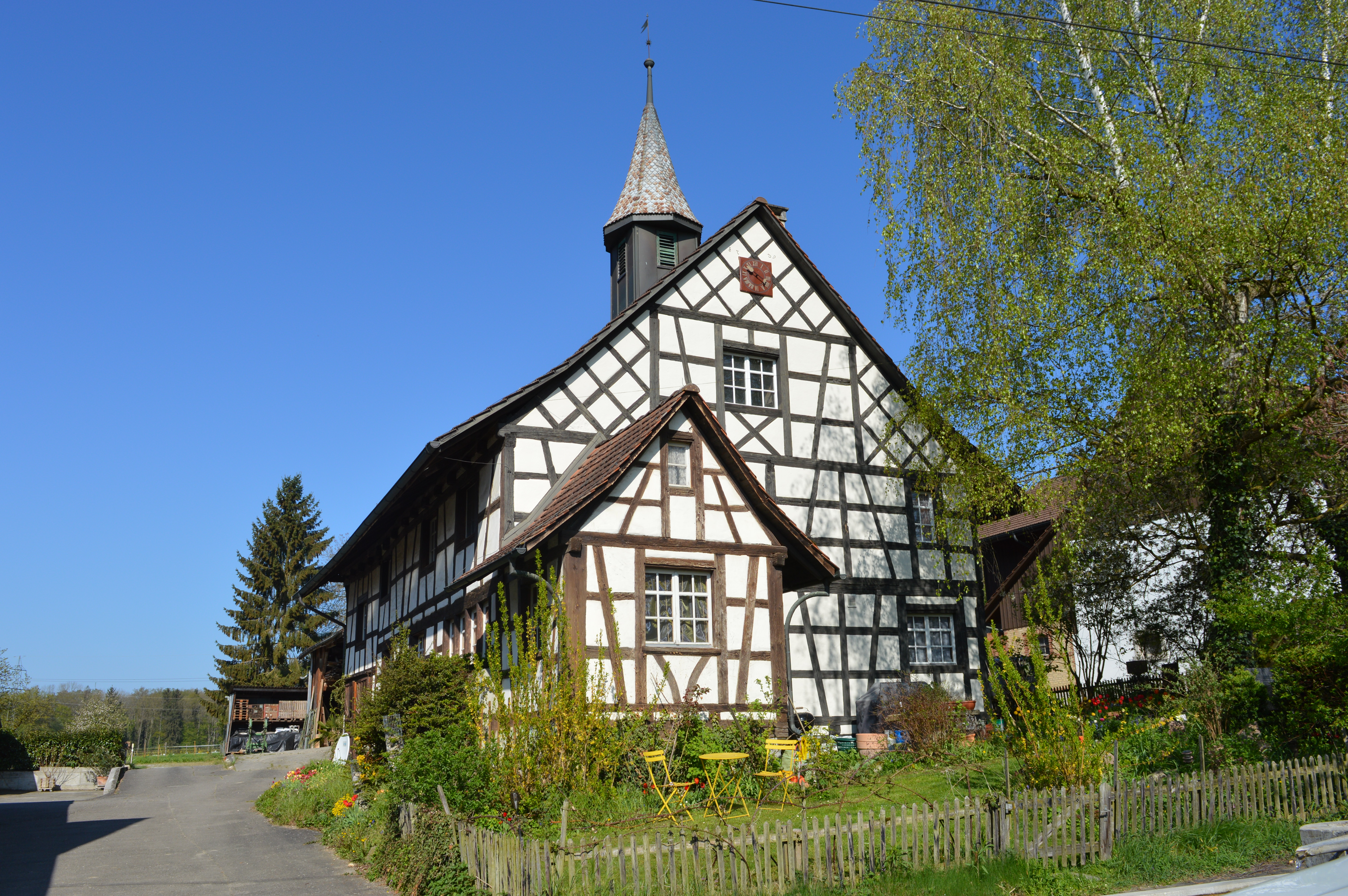 Fahrhof, municipality of Neunforn, canton of Thurgovia, Switzerland